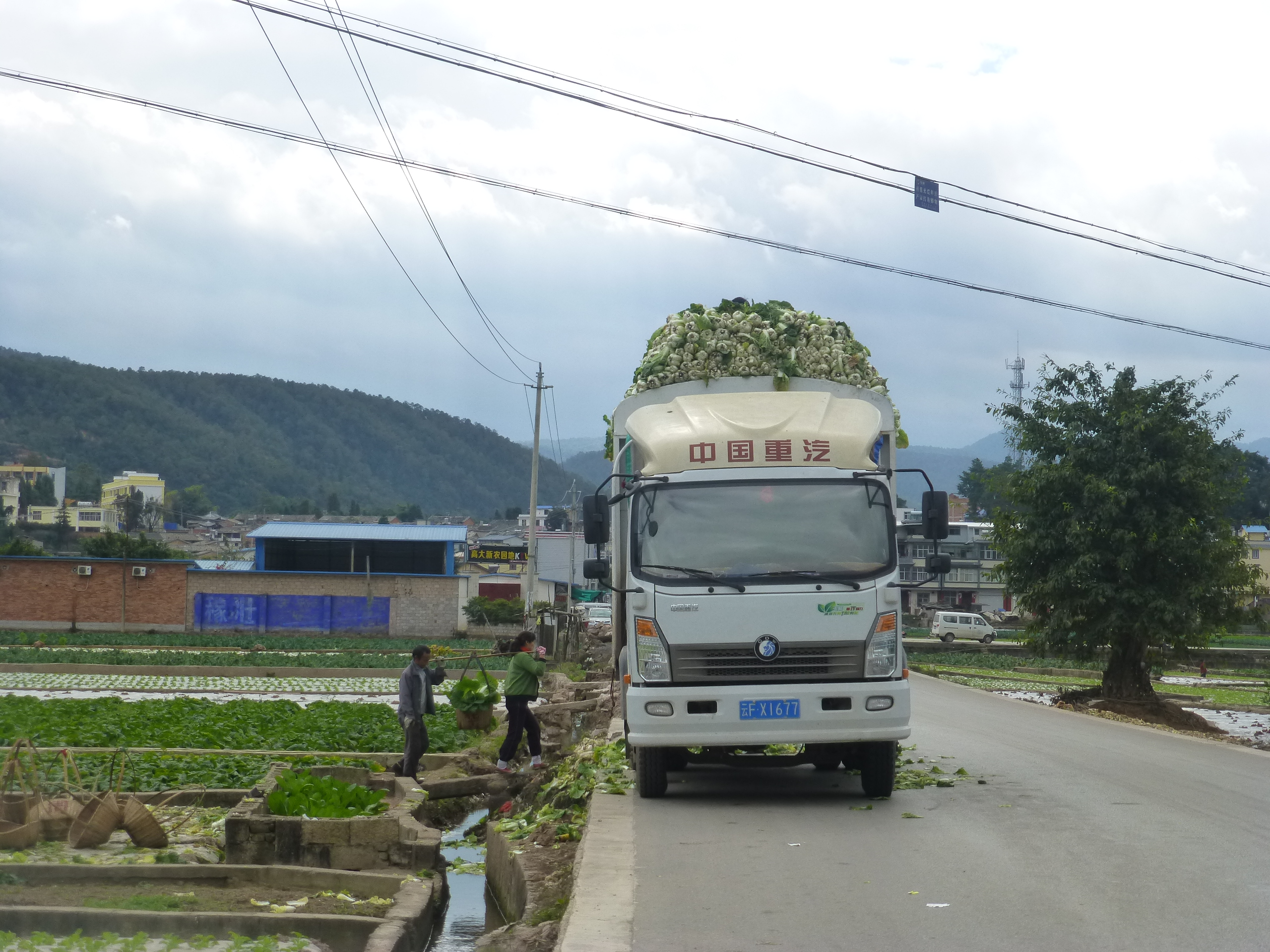 Chinese cabbage (bok choi) harvested and loaded onto a truck, by the side of Hwy S214 in Tonghai County, Gaoda Dai and Yi Ethnic Township.